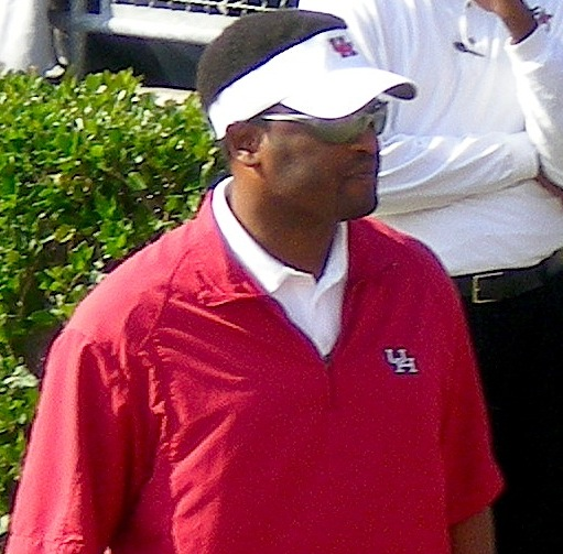 Kevin Sumlin, the head coach of the Houston Cougars football team, standing.